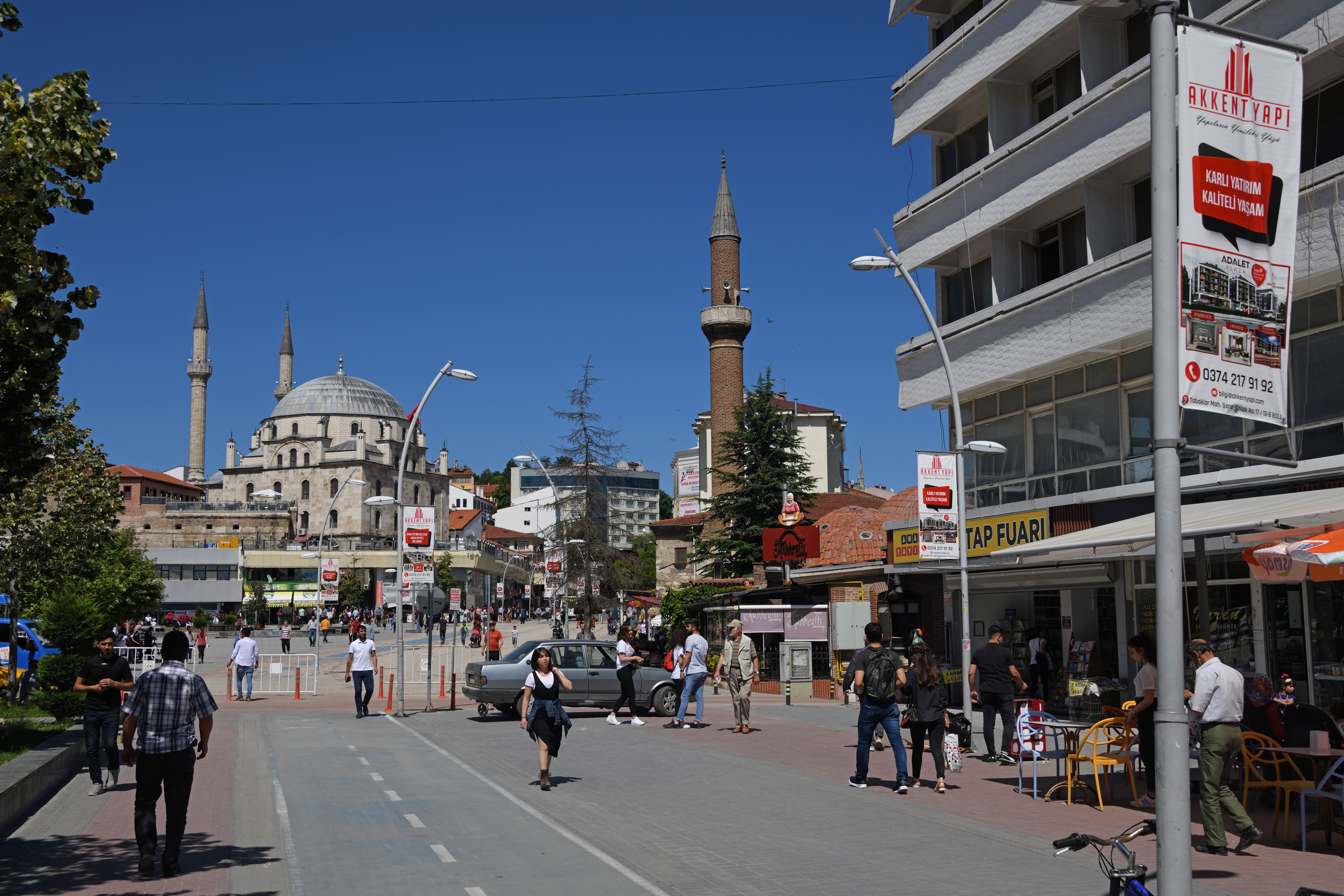 This is a main shopping street that widens into a square with the municipality and the cultyural centre to the north, the Beyazit mosque in the distance, and another mosque and a bathhouse to thew south. It can be seen as the heart of town.